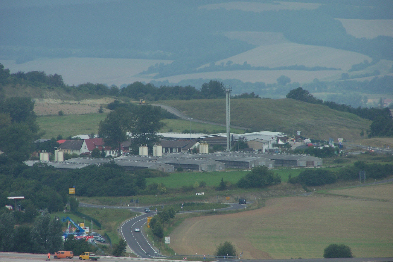 The Deubachshof near Krauthausen.